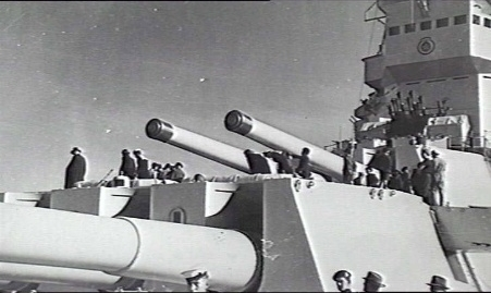 AWM caption : "PORT MELBOURNE, VIC. 1945-10-29. THE FORWARD 14 INCH GUN TURRETS OF THE BATTLESHIP HMS KING GEORGE V. AN EIGHT BARRELLED 2 POUNDER AA MOUNTING IS SITED ON B TURRET."